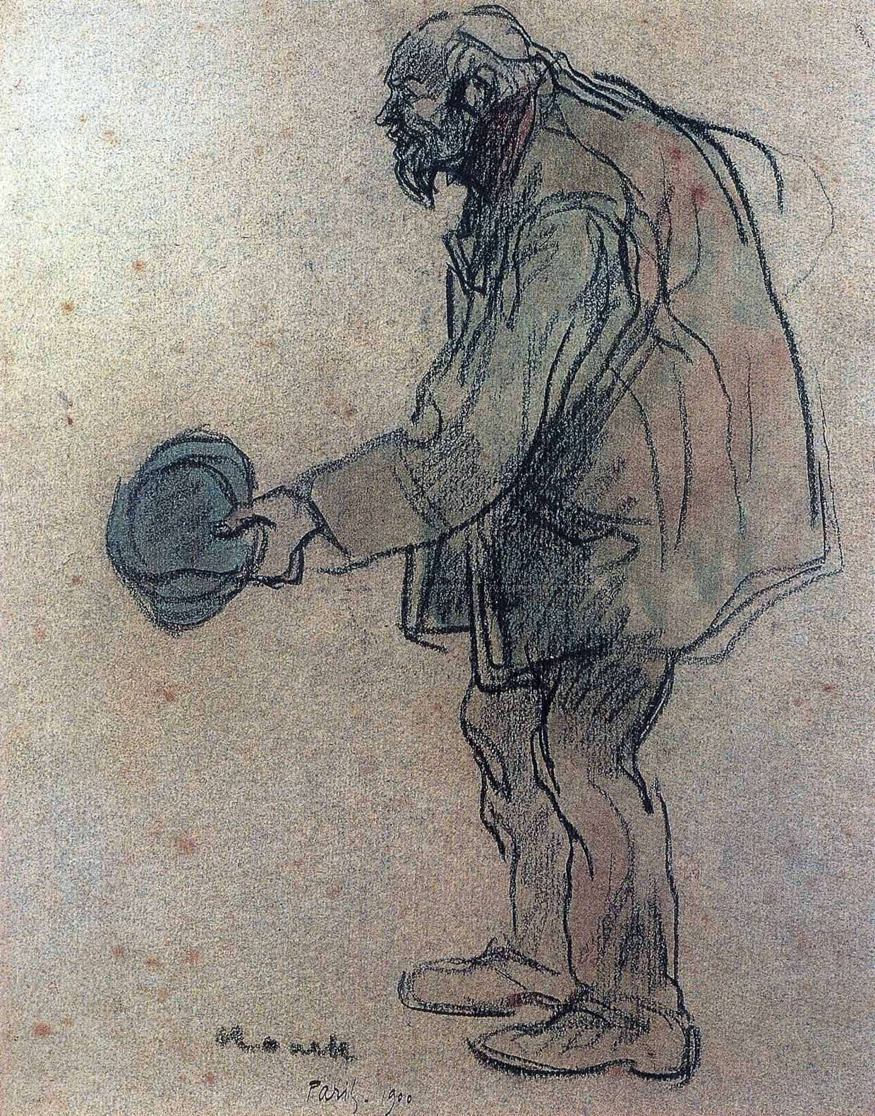 Beggar in Paris (1897), drawing by Isidre Nonell (1872–1911).